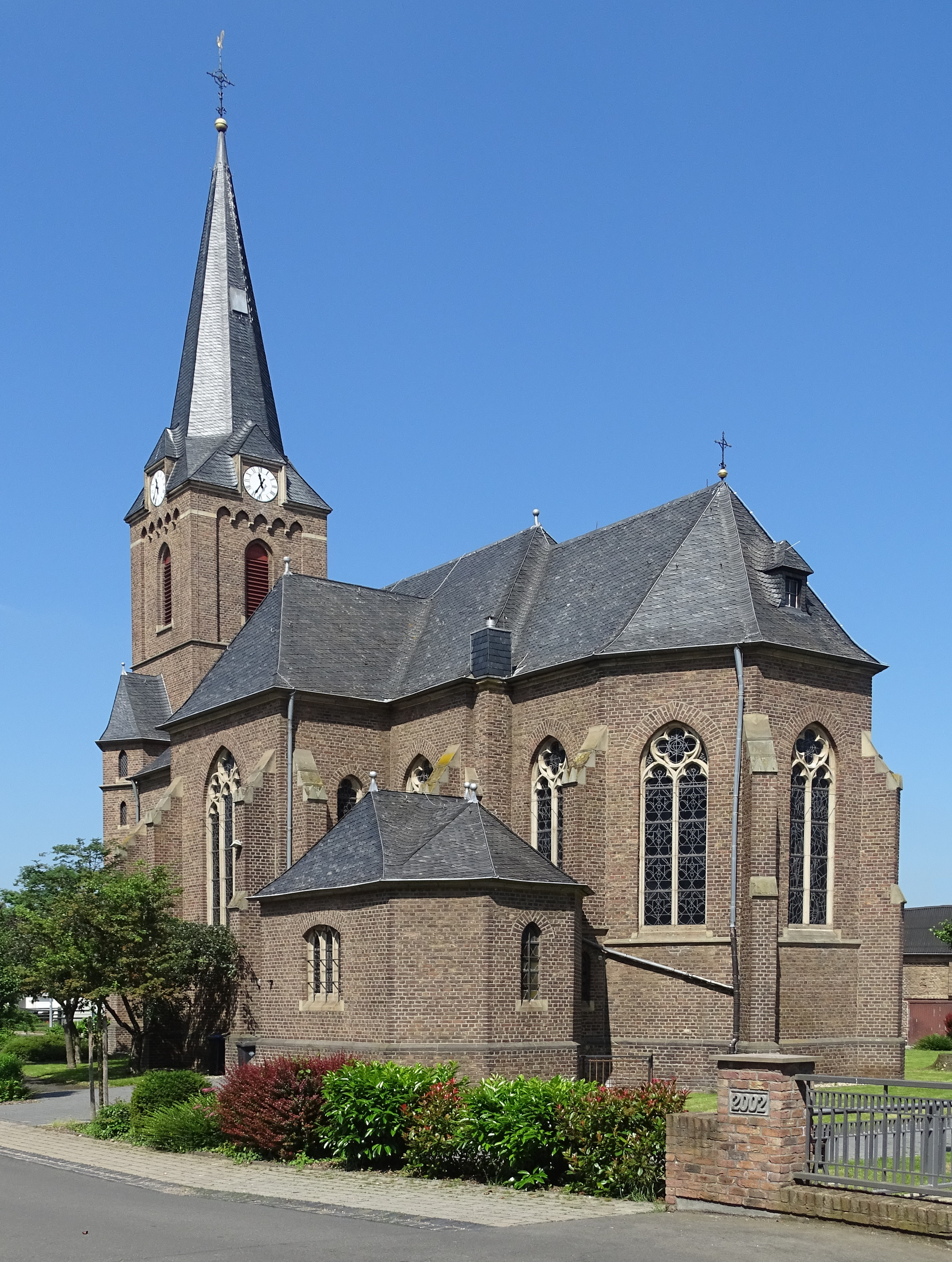 Catholic parish church of St. Peter und Paul in Kleinbüllesheim